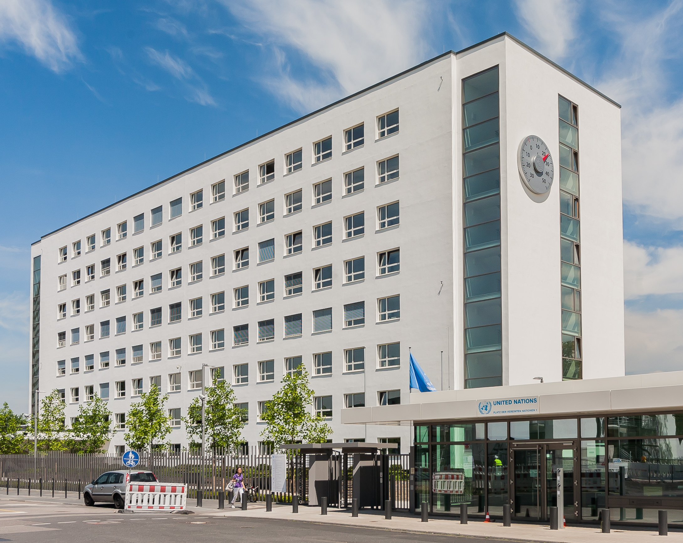 “Old highrise of members of parliament”, Platz der Vereinten Nationen 1, Bonn-Gronau; now used as office building by the secretary of the United Nations Framework Convention on Climate Change and part of the “UN-Campus”